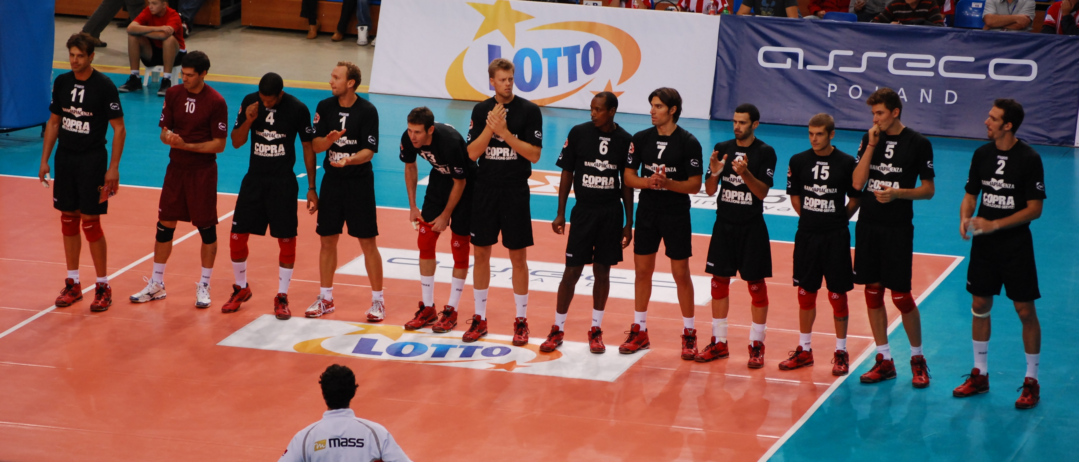 Copra Morpho Piacenza